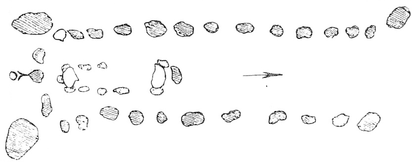 Outline of the dolmen Leetze 5, Saxony-Anhalt